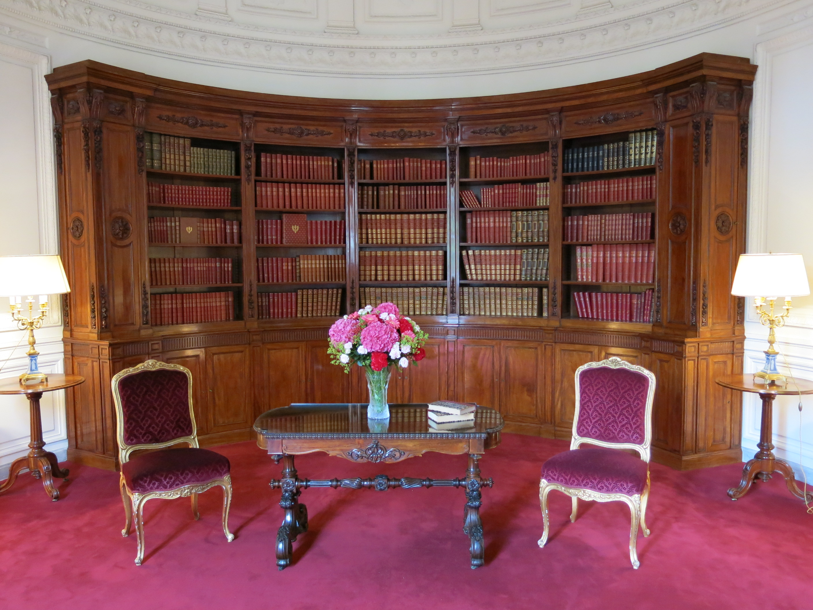 Library of the Palais de l'Élysée (Paris, France).